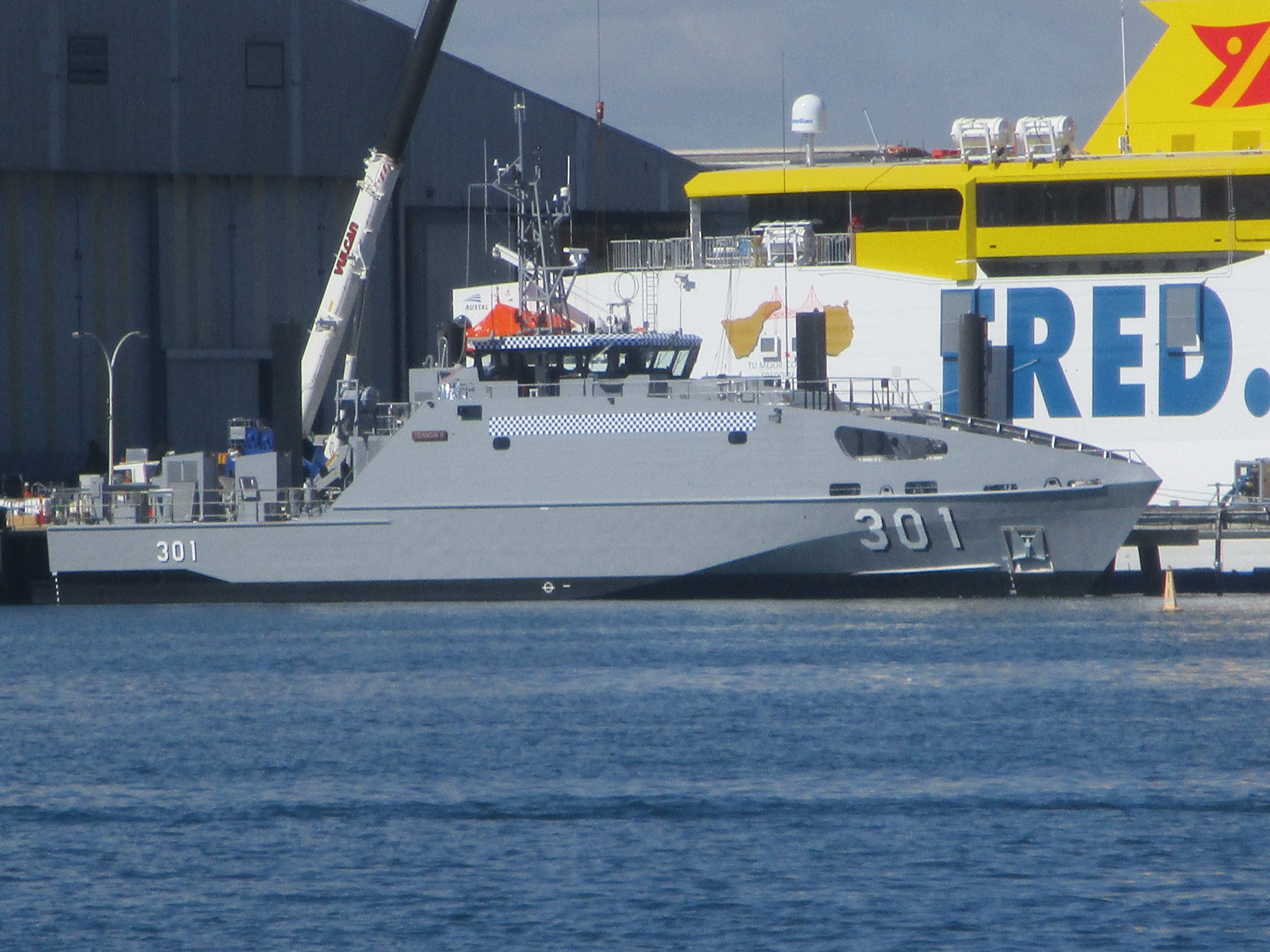 Bajamar Express and the RKS Teanoai II (301) Guardian-class patrol boats at Austal shipyards in Henderson, Western Australia.